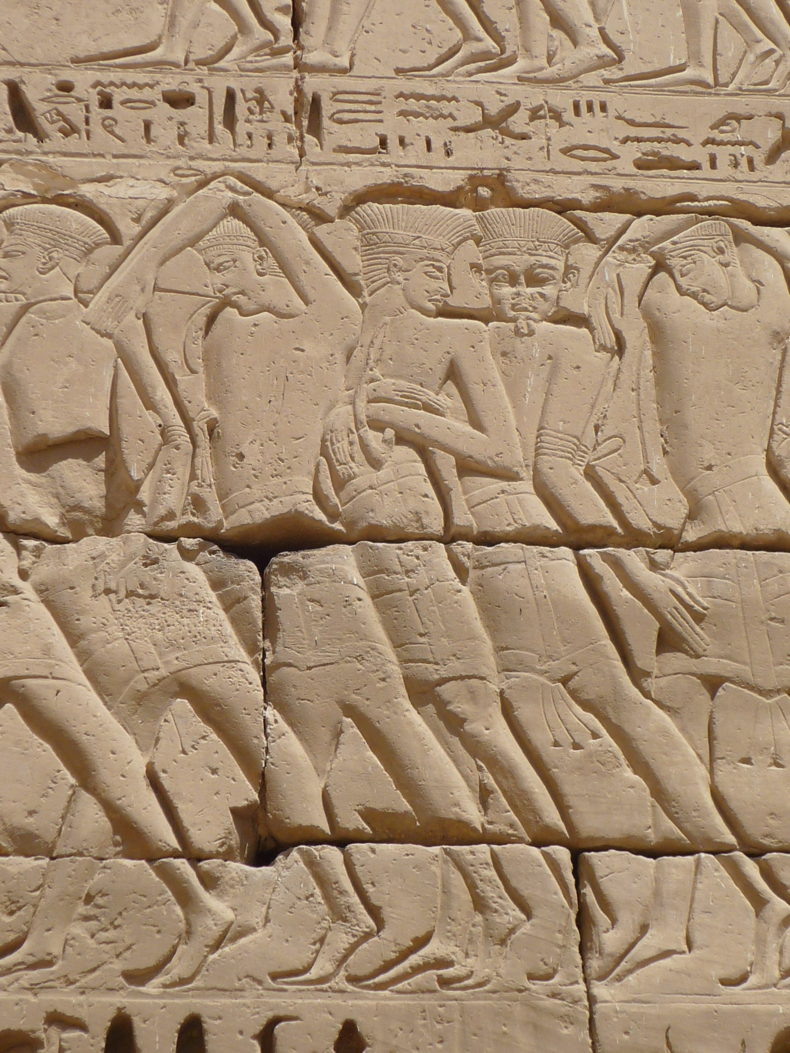 Wall relief of Philistine captives being led away after their failed invasion of Egypt, mortuary temple of Ramses III, Medinet Habu, Theban Necropolis, Egypt